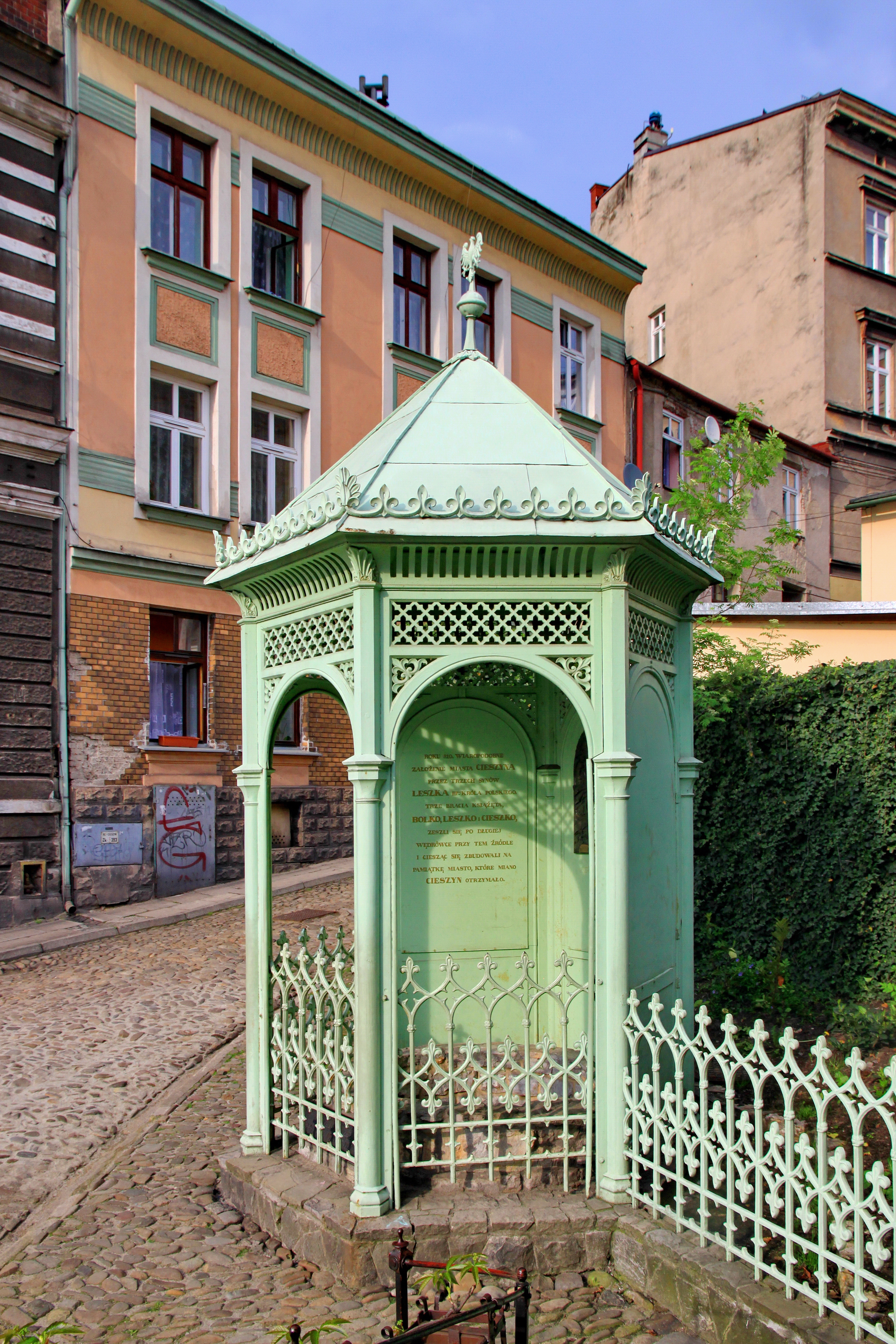 Cieszyn, Three Brothers Fountain, build in 1868